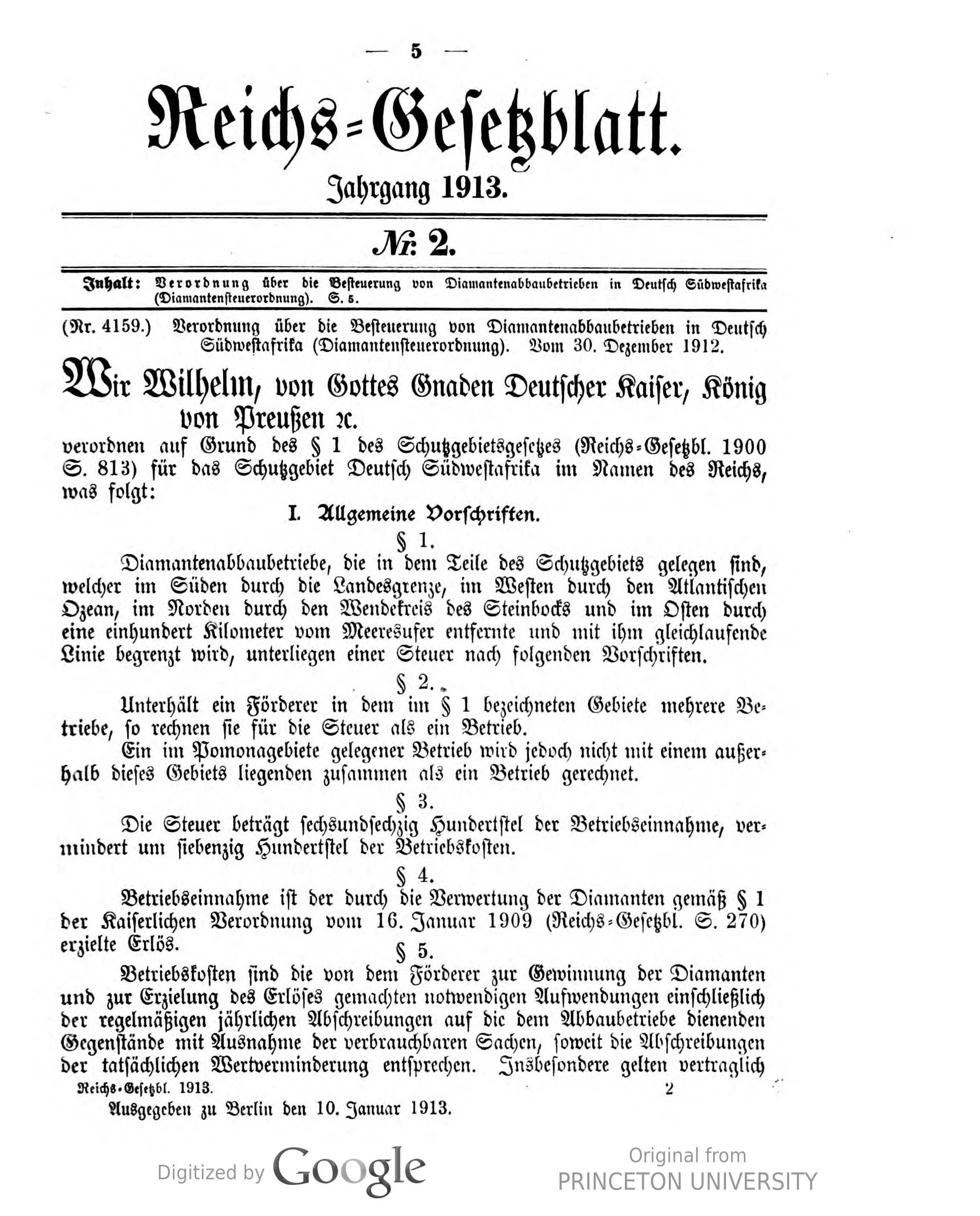 Scan from the Imperial Law Gazette of Germany, 1913